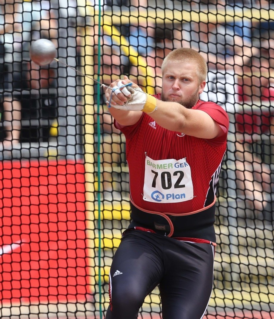 Paul Hützen in competition